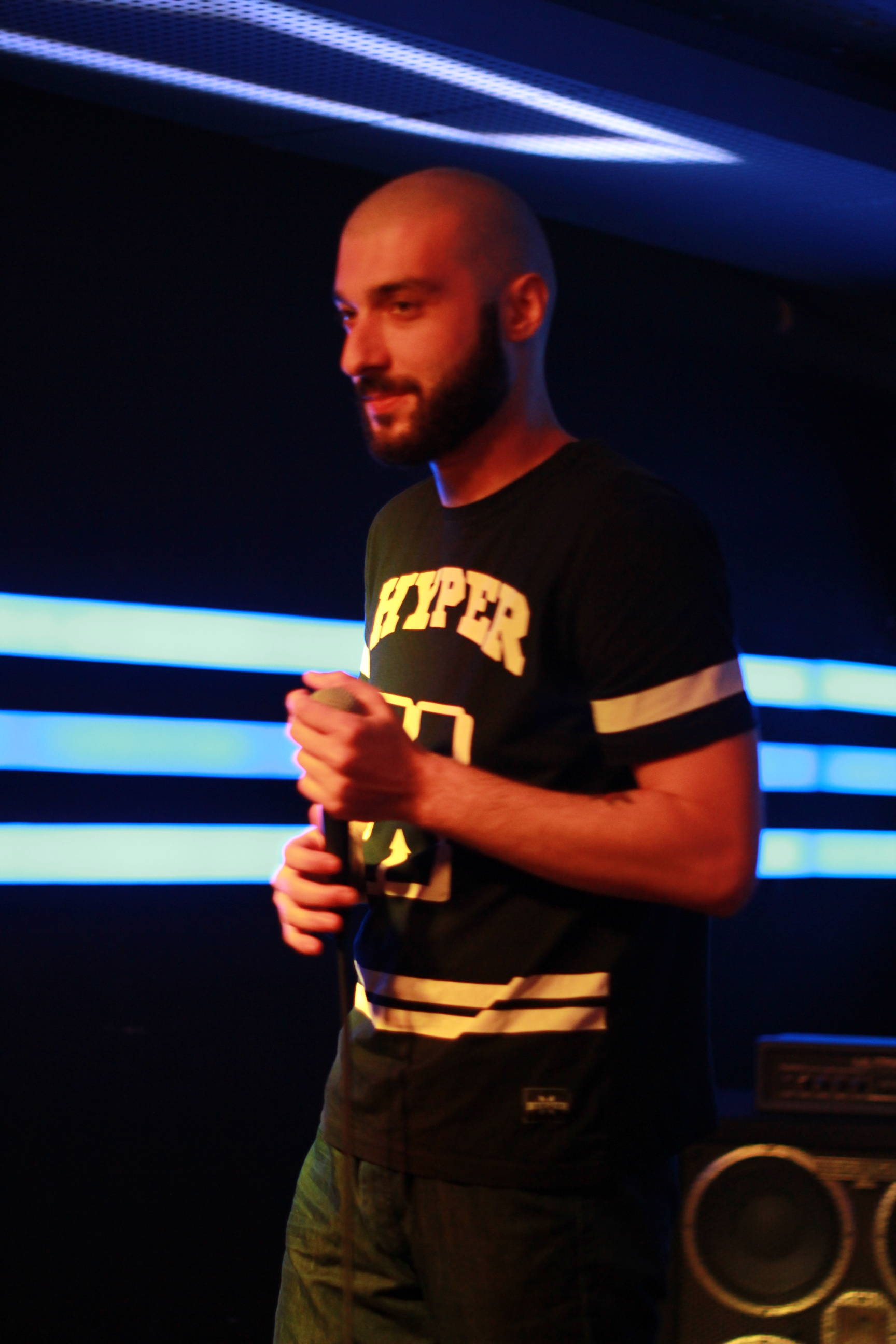 Sansar Salvo, Turkish rapper. During the concert of Elçin Orçun in Ankara.